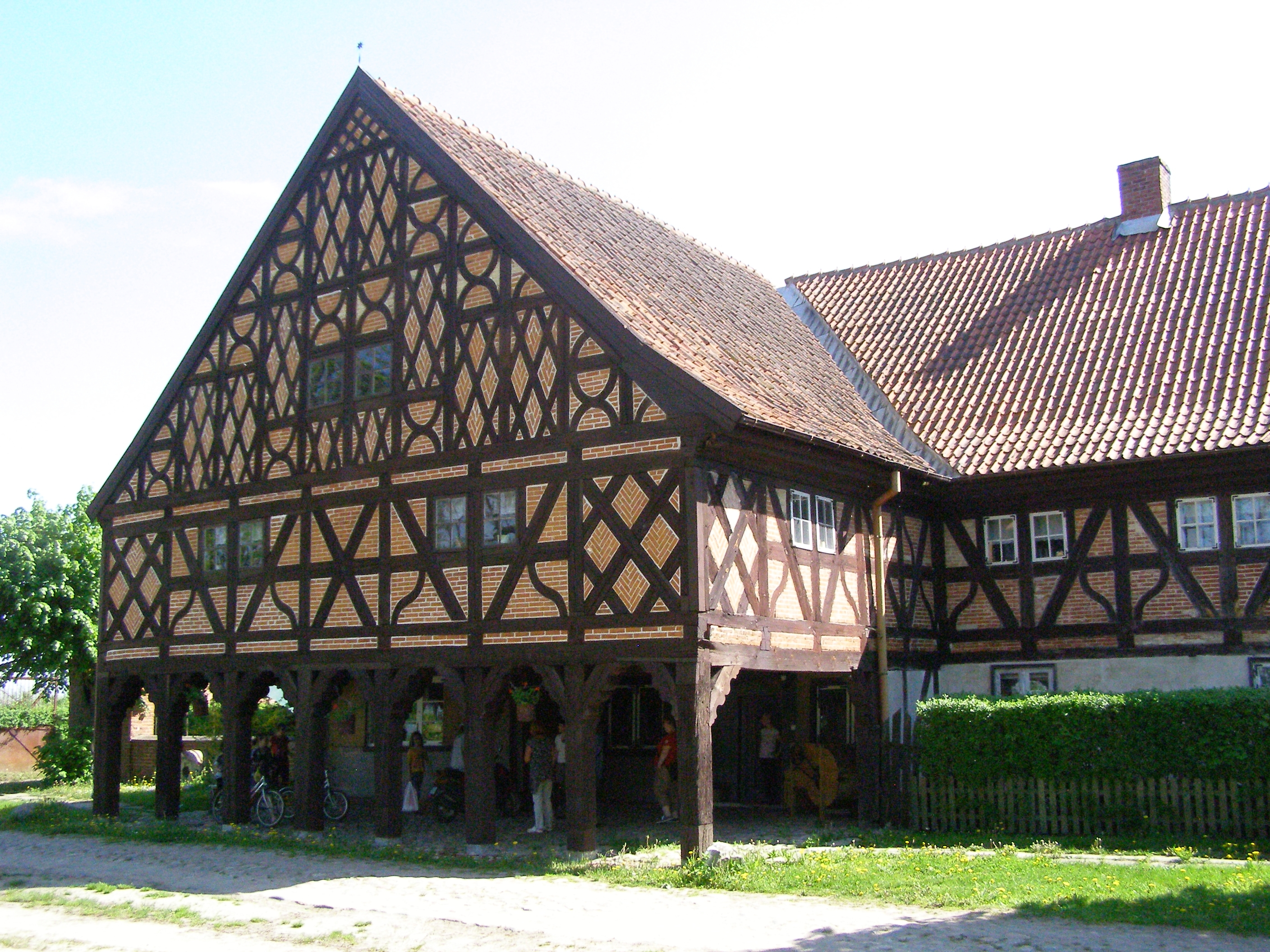 Trutnowy - mennonite house